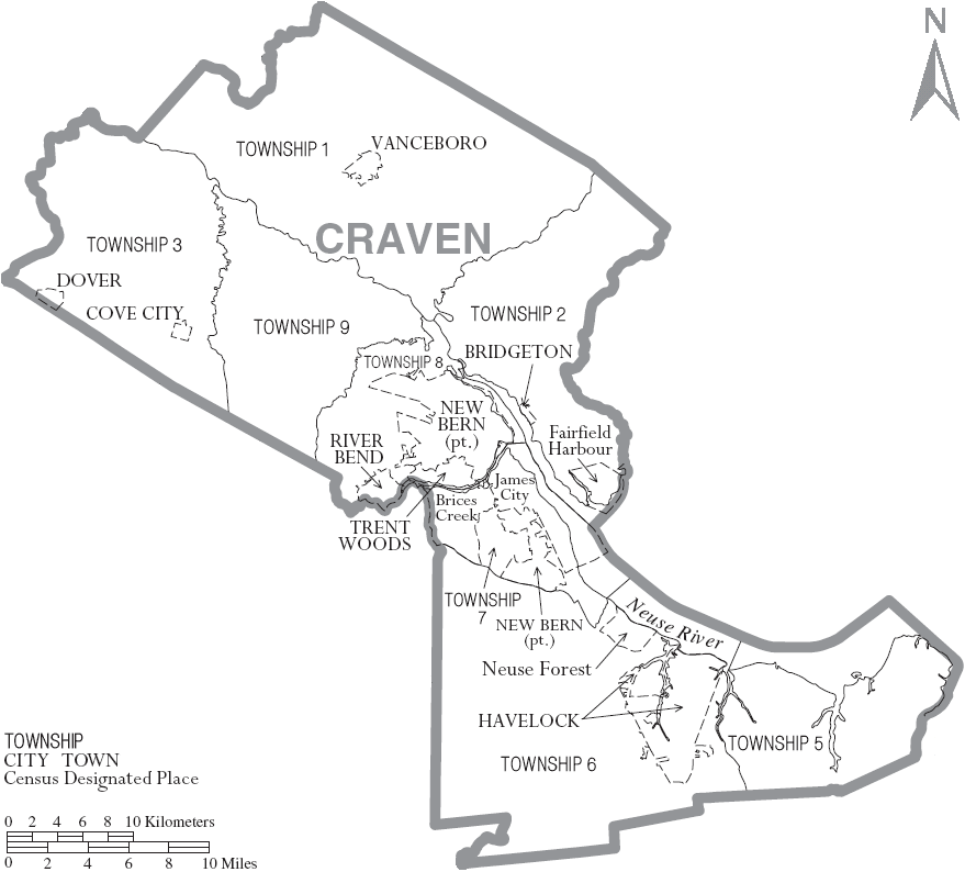 Map of Craven County, North Carolina, United States with township and municipal boundaries